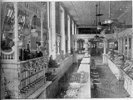 Interior of the Cincinnati business Coston's Confectionery & Ice Cream Parlor